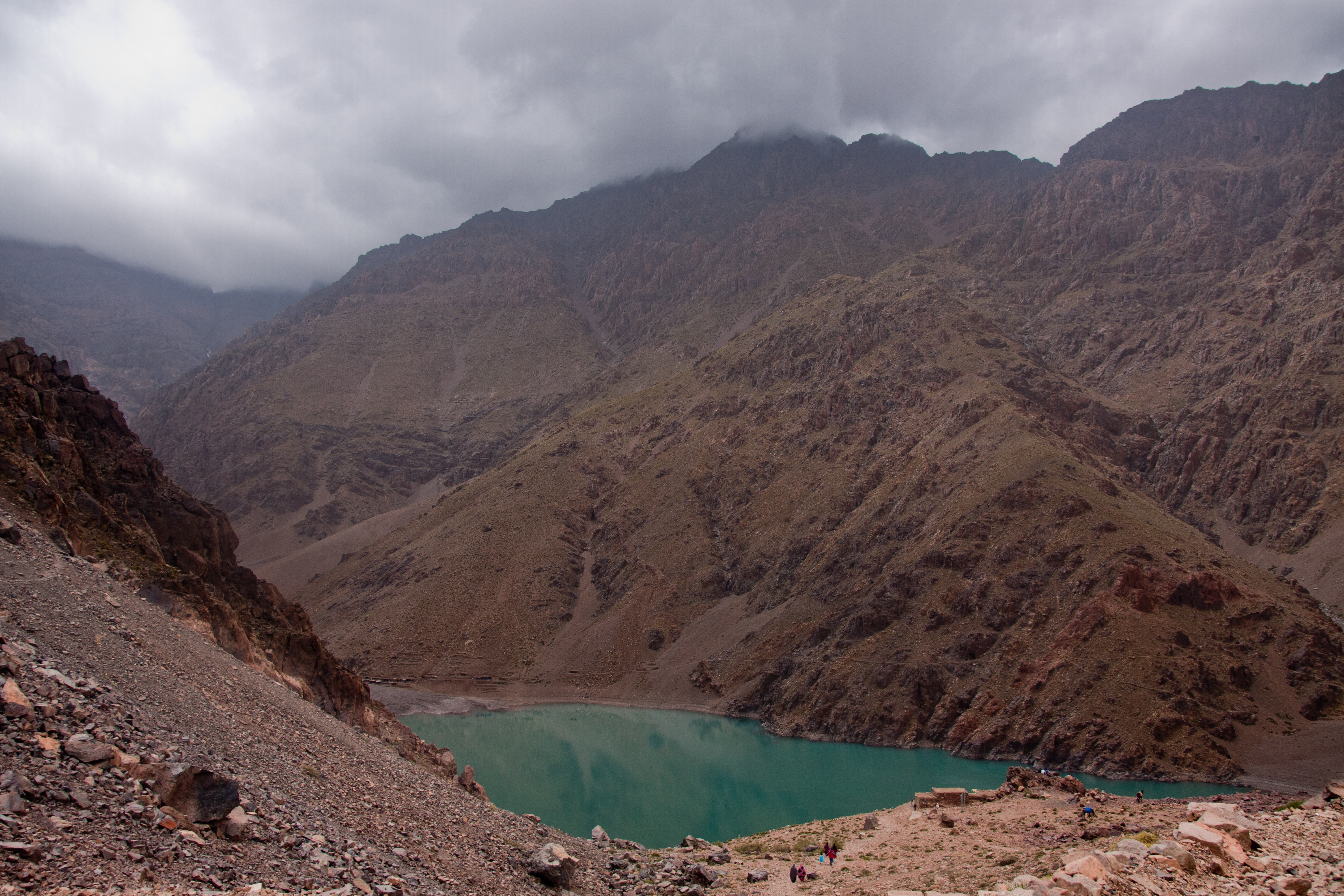 Ifni lake, Taroudant province, Morocco